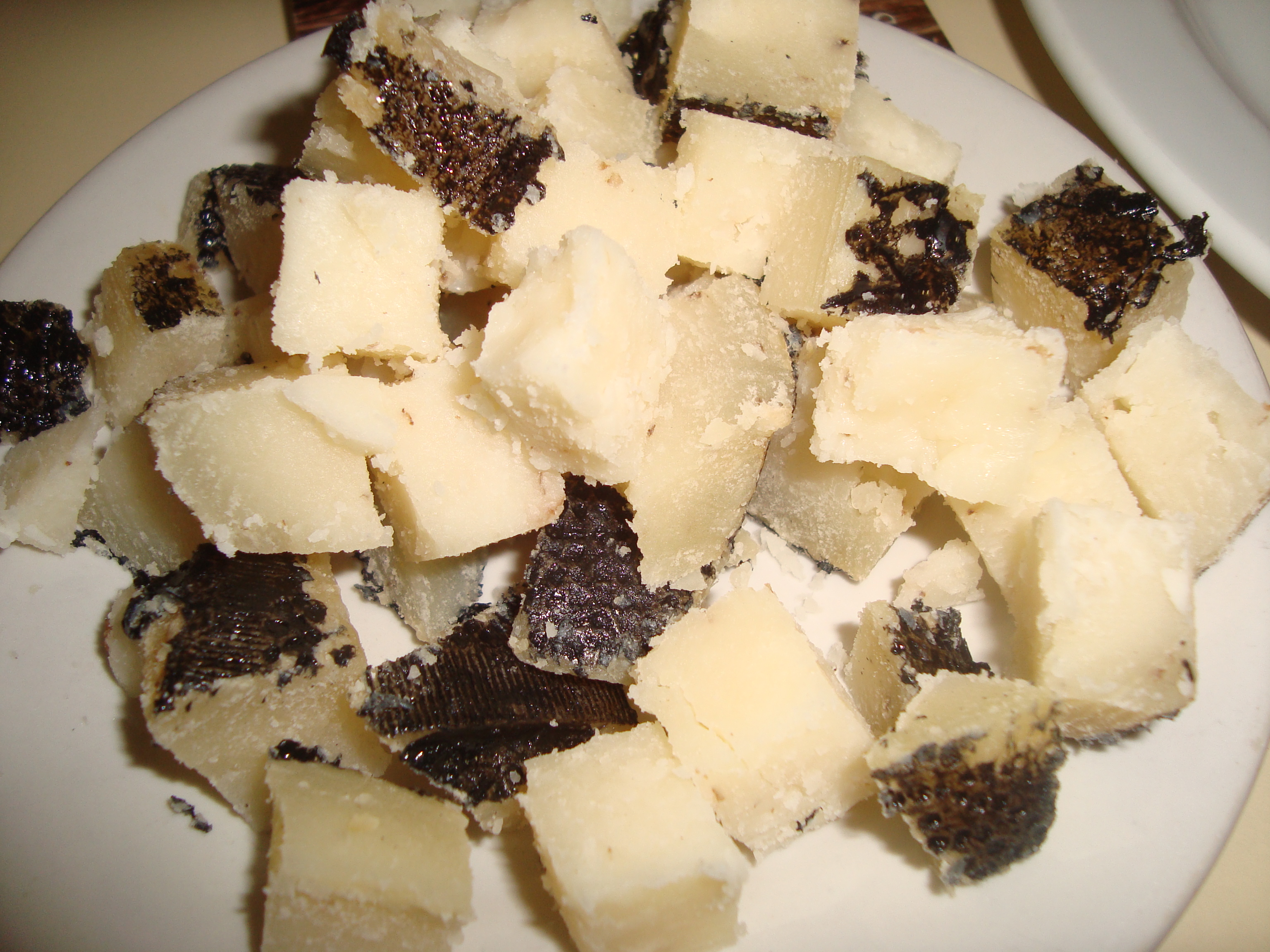 Teruel cheese